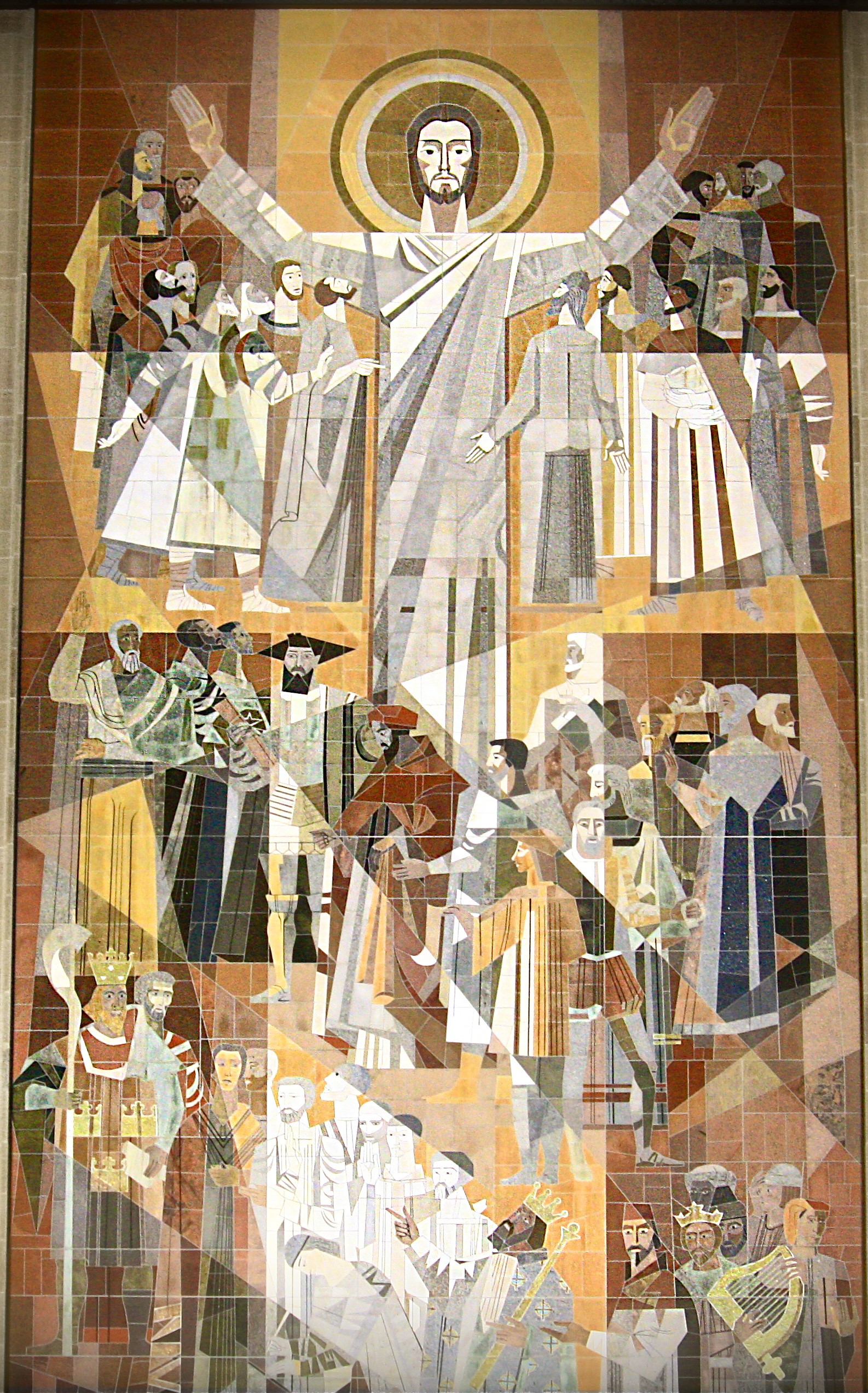 A view of the Hesburgh Library's "Word of Life" mural, which is more commonly known as "Touchdown Jesus."